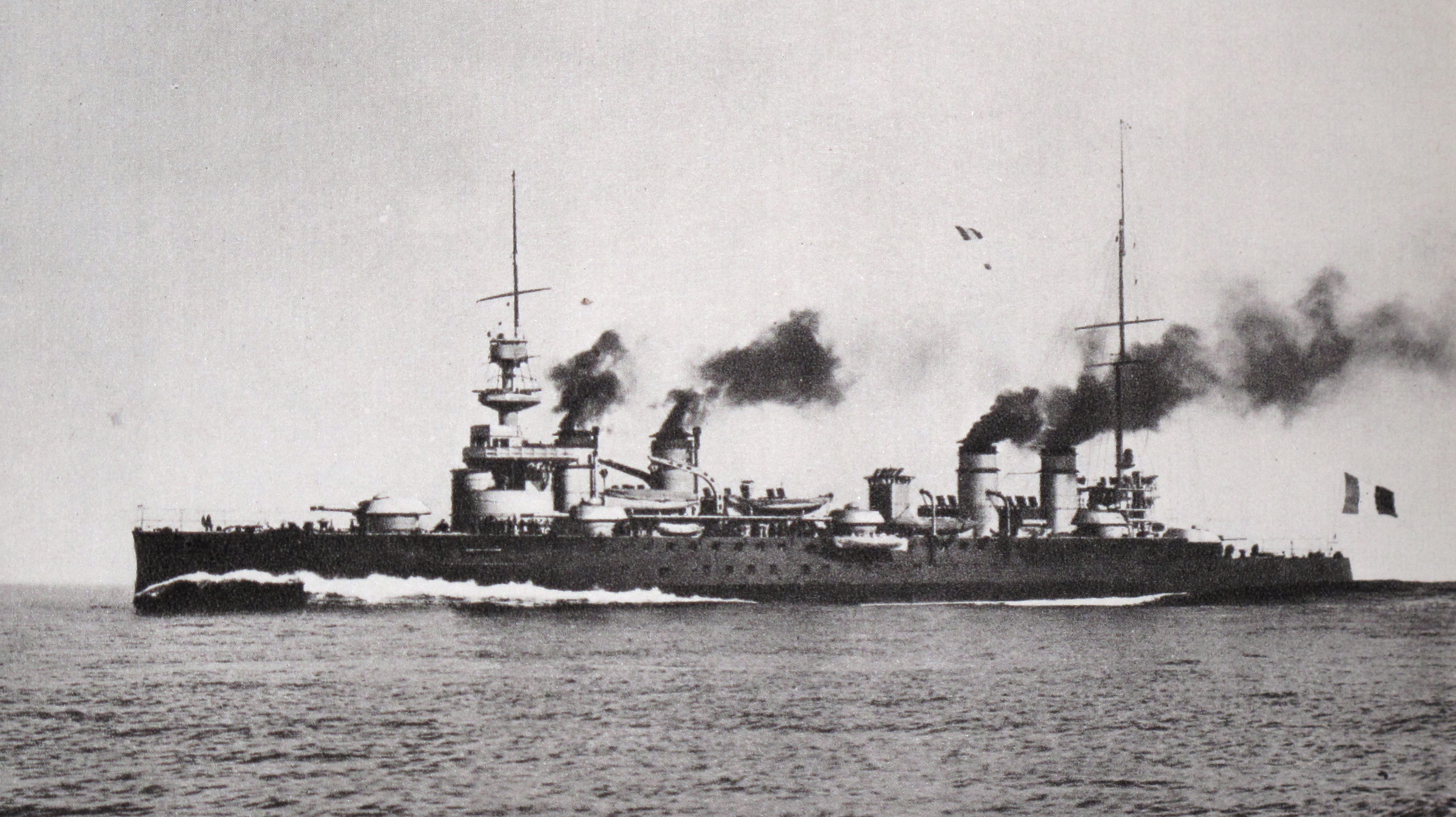 French armoured cruiser Jules Ferry